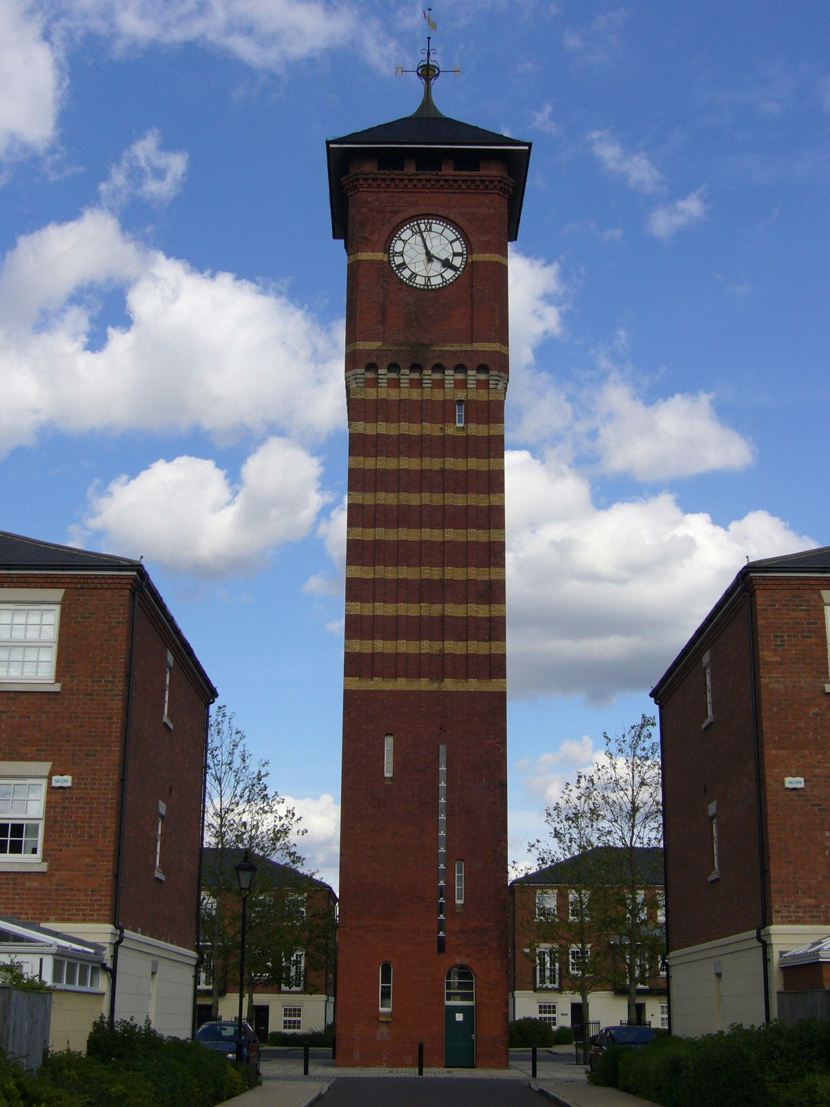 The water tower of Warlingham Park Hospital in what is now called Tower Place at grid reference TQ 373 595 in Chelsham, Surrey. The site is at about 180 metres above sea level on the North Downs. Water would have been obtained from a bore hole into the underlying chalk and pumped to the tank at the top of the tower. The black board had a marker on it, linked to float in the tank, which showed the depth of water - up to 21 ft.